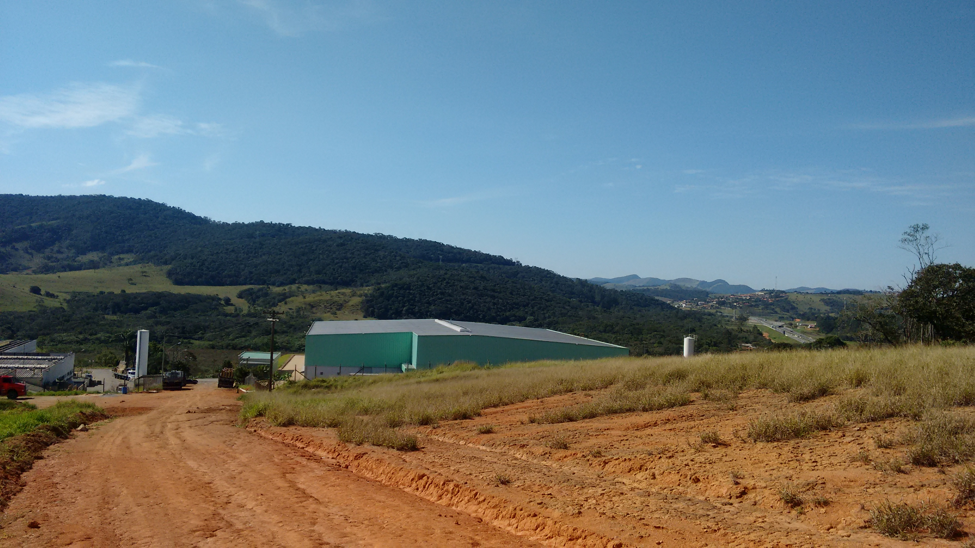 Growth of Serra Negra neighborhood area abandoned by municipality.